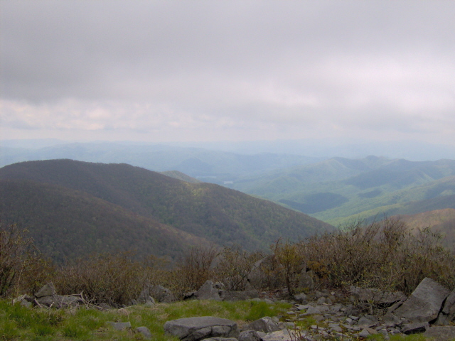 View southwest from Thunderhead Mountain in the Great Smoky Mountains of the U.S. states of Tennessee and North Carolina. Jenkins Trail Ridge is on the left, and the Eagle Creek Valley is on the right. Part of Fontana Lake can be discerned near the center of the image.